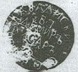 Bulgarian church seal in Demir Hisar